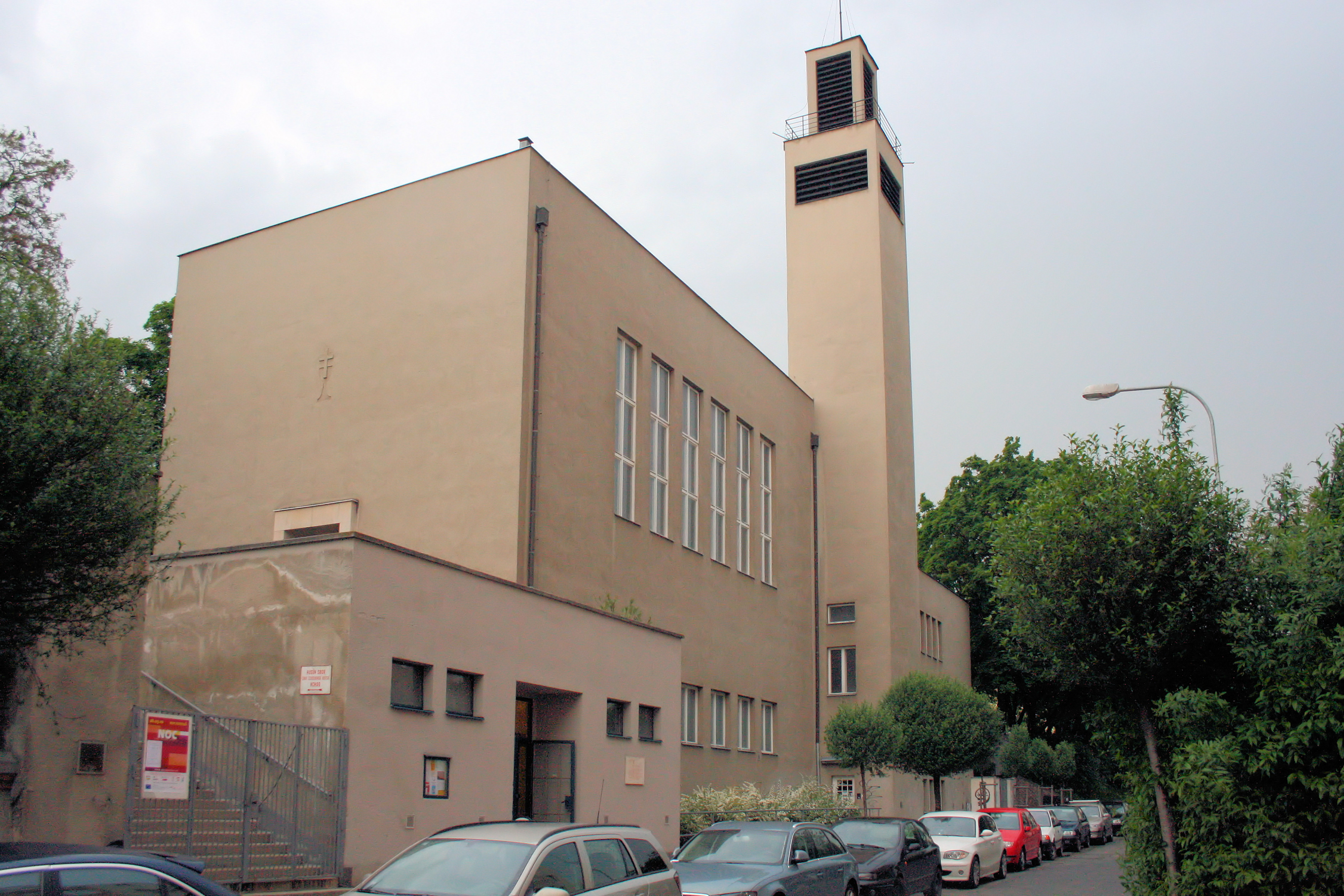 Church of Czechoslovak Hussite Church in Brno, Czech Republic